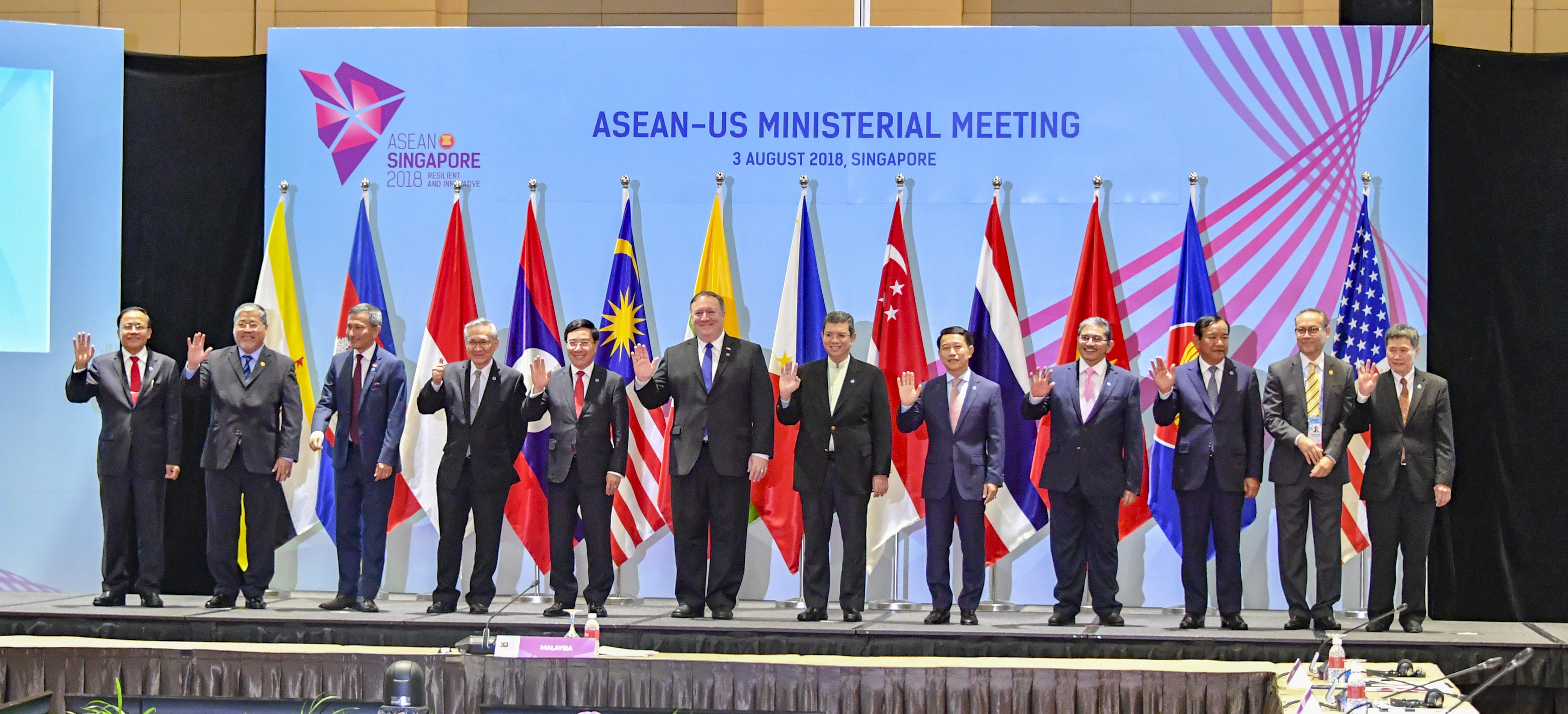 Secretary Michael R. Pompeo at the ASEAN-US Ministerial Meeting, 3 August 2018, Singapore. Joined by Myanmar International Cooperation Minister Kyaw Tin, Philippine SOM leader, Singapore Foreign Minister Vivian Balakrishnan, Thai Foreign Minister Don Pramudwinai, Vietnamese Deputy Prime Minister and Foreign Minister Pham Binh Minh, US Secretary of State Mike Pompeo, Malaysian Foreign Minister Saifuddin Abdullah, Lao Foreign Minister Saleumxay Kommasith, Brunei Second Minister of Foreign Affairs and Trade Erywan bin Pehin Yusof, Cambodian Foreign Minister Prak Sokhonn, Indonesian SOM leader and ASEAN Secretary-General Lim Jock Hoi.